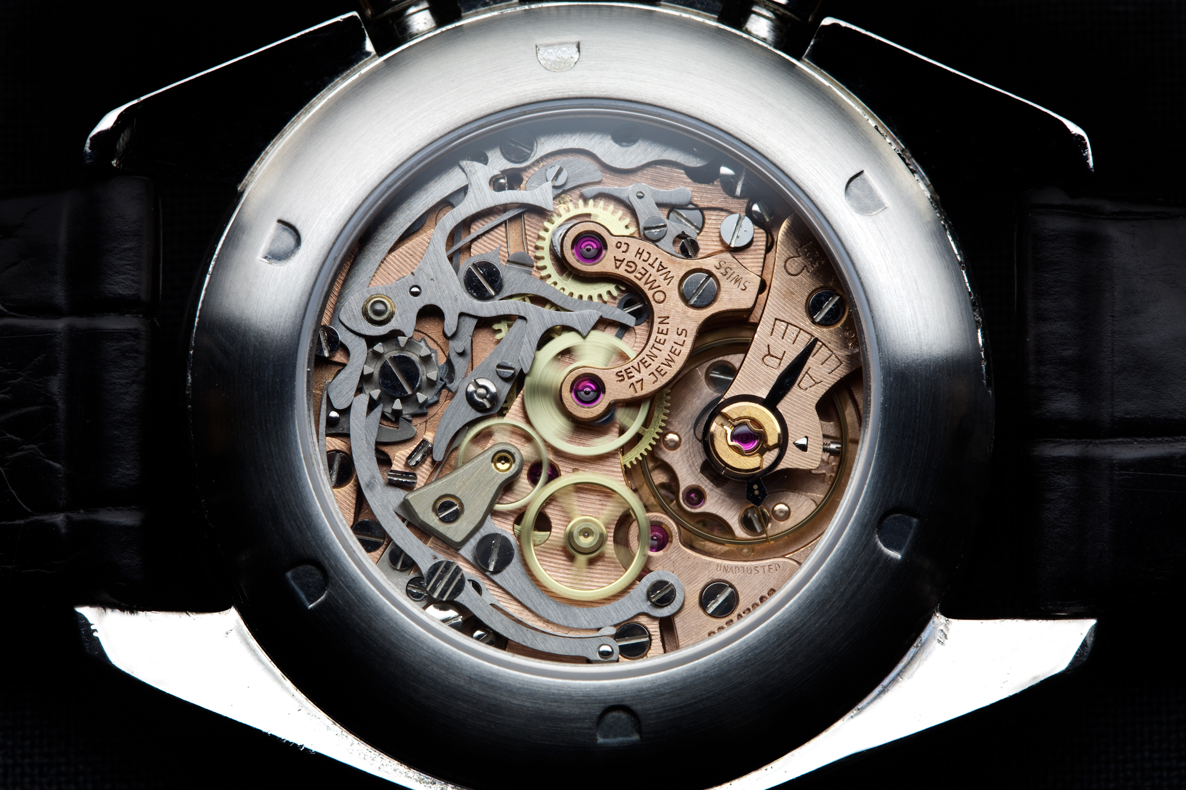 Omega 17 jewel hand-wind column wheel screwed balance chronograph movement with 30-minute and 12-hour registers. Watch is a Omega Speedmaster 145.012 from 1967 with a Thomas Preik exhibition caseback. Compare with modern Speedmaster cal. 1861 movement